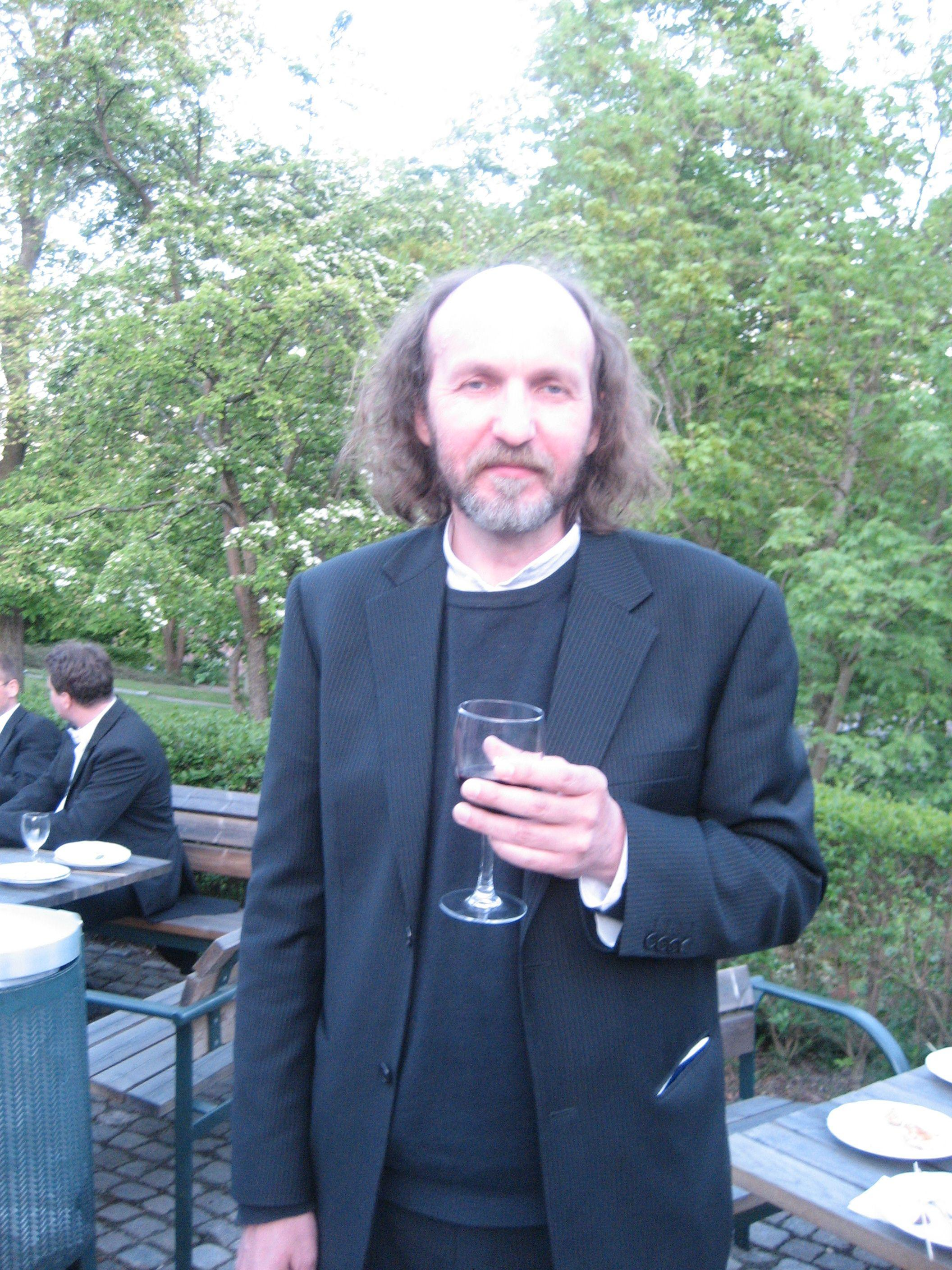 Estonian composer. Author of "Future Continuous" - the musical gift for Sweden